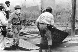 Police repression during the Rosariazo